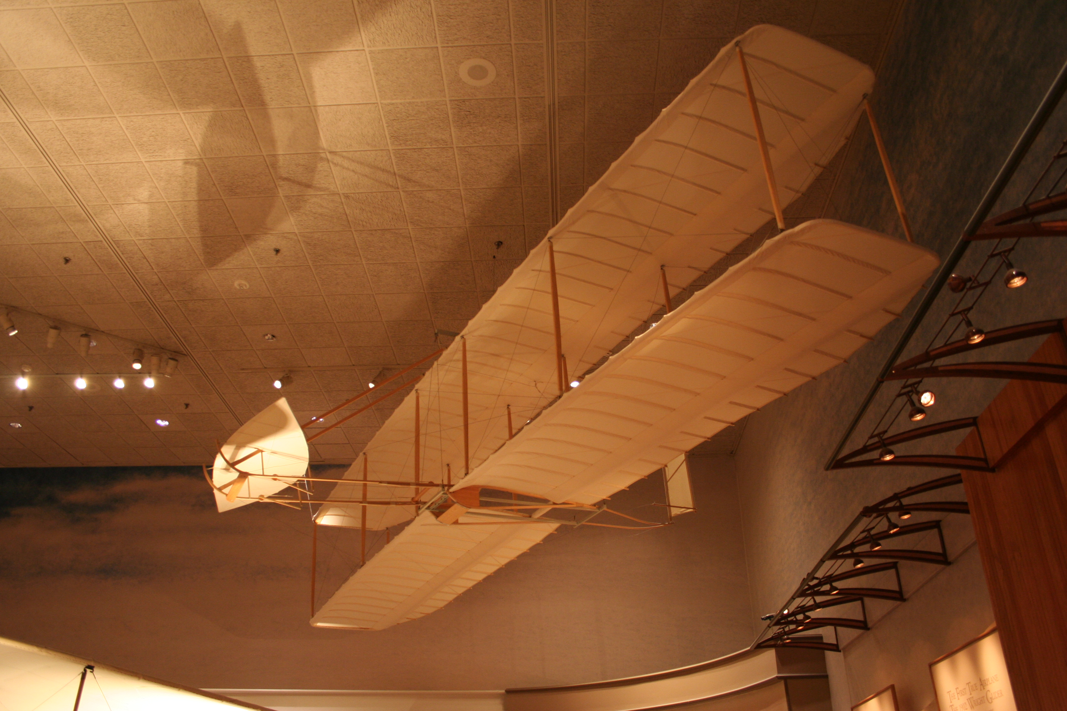 Replica of the 1902 Wright Glider at National Air & Space Museum.